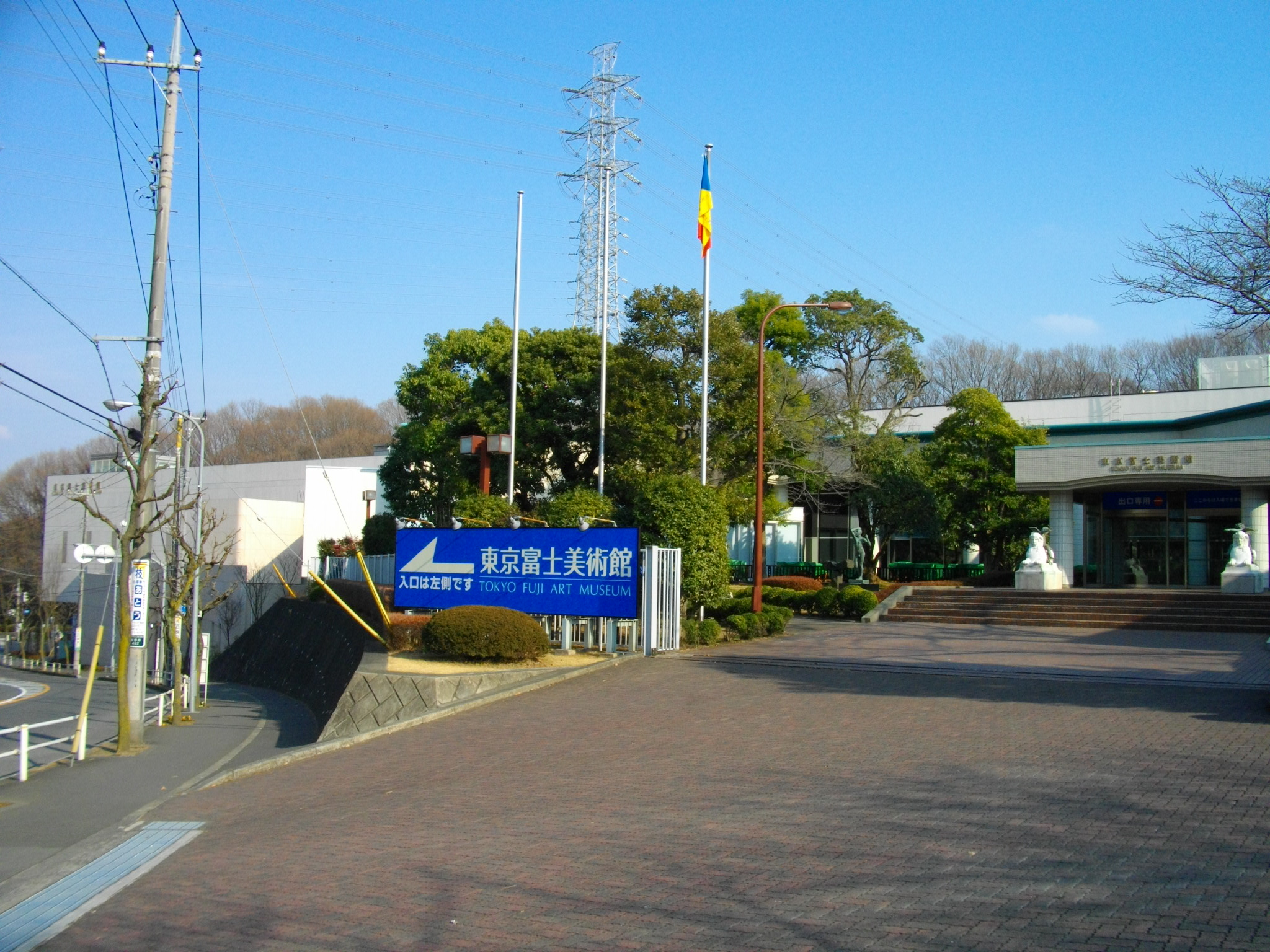 Tokyo Fuji Art Museum